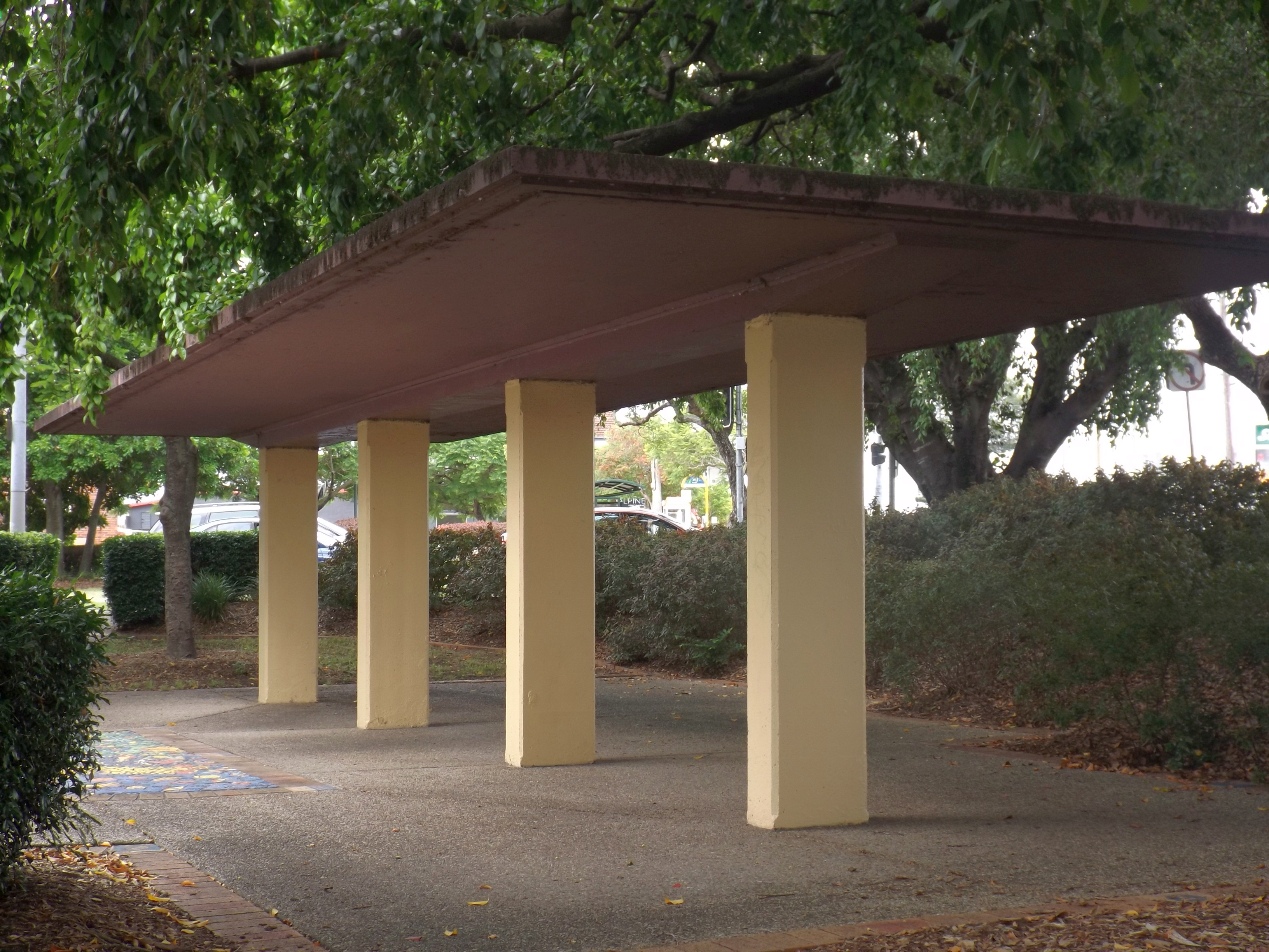 Photo of Morningside Air Raid Shelter at Morningside, Brisbane, Queensland, Australia.